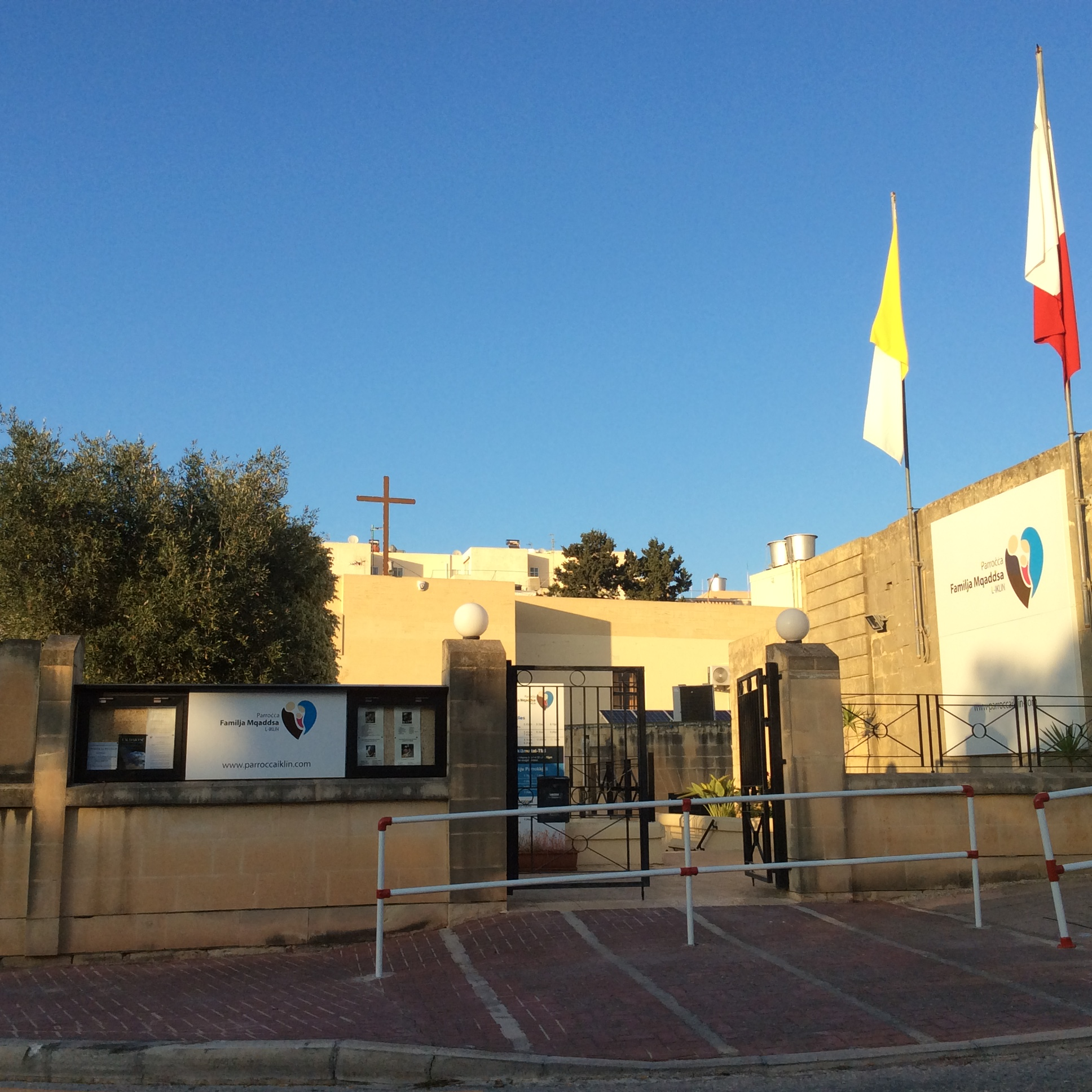 Iklin parish centre - iklin does not seem to have a focal monumental building, garden or place. This is the most known community-related gathering.